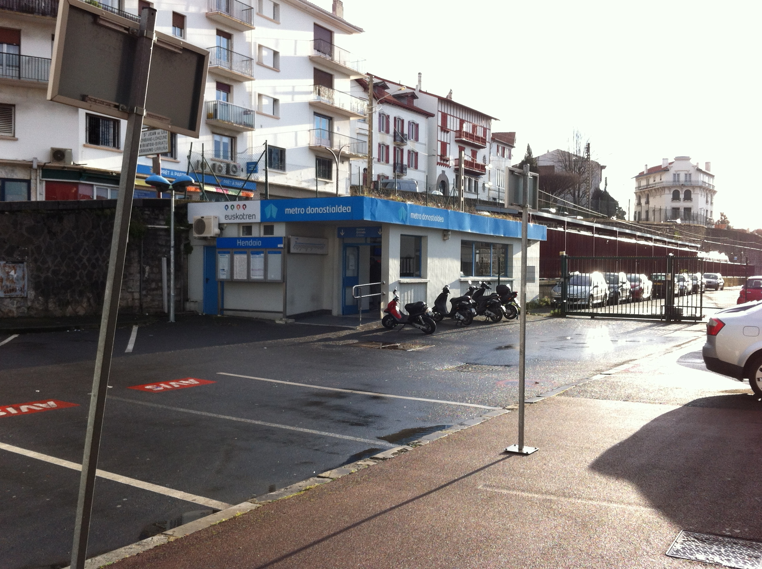 Euskotren station in Hendaye.